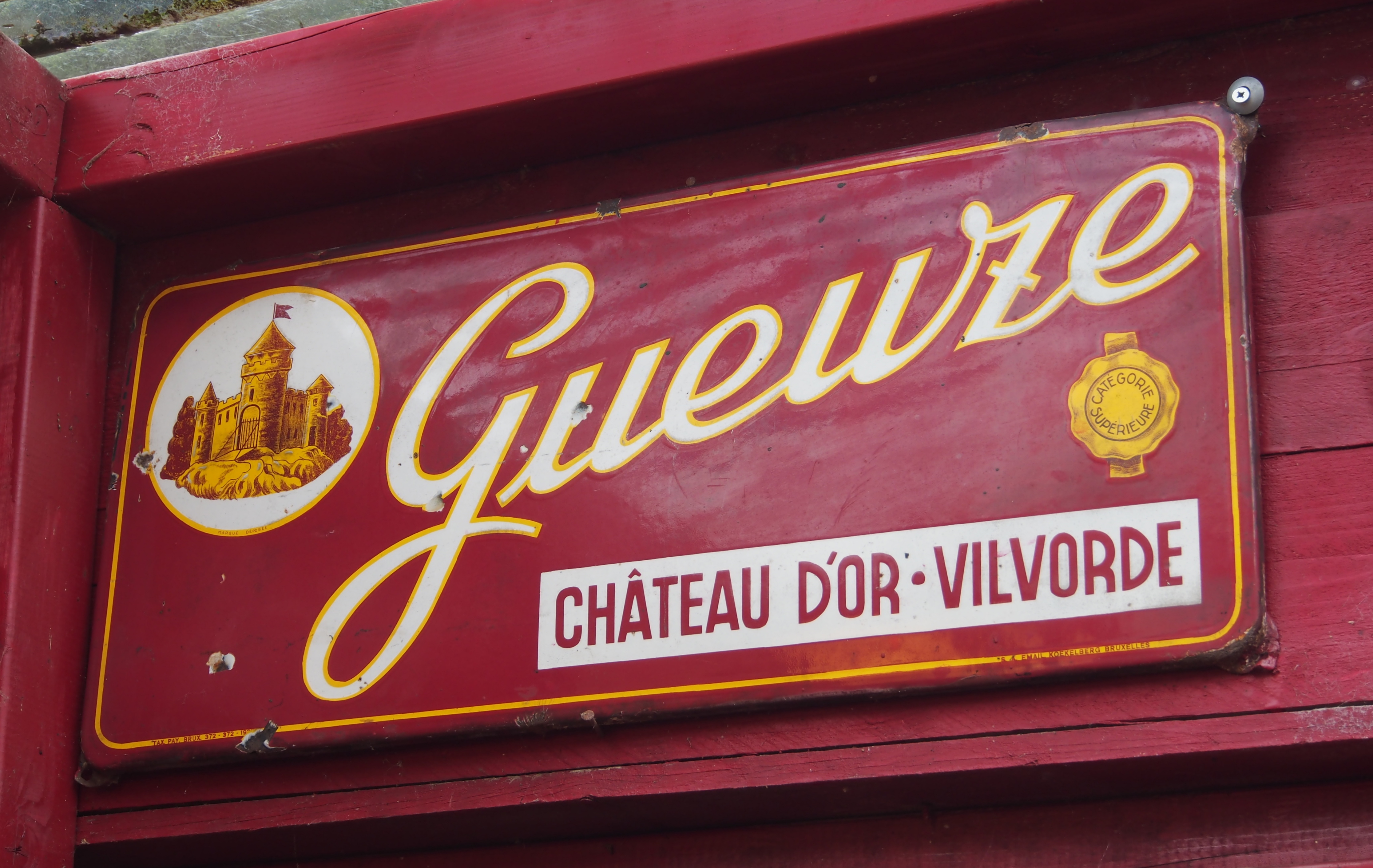 Photographed at the Bierreclame Museum Haagweg, Breda, The Netherlands. Very old advertisment of a beer company that does not exist any more.